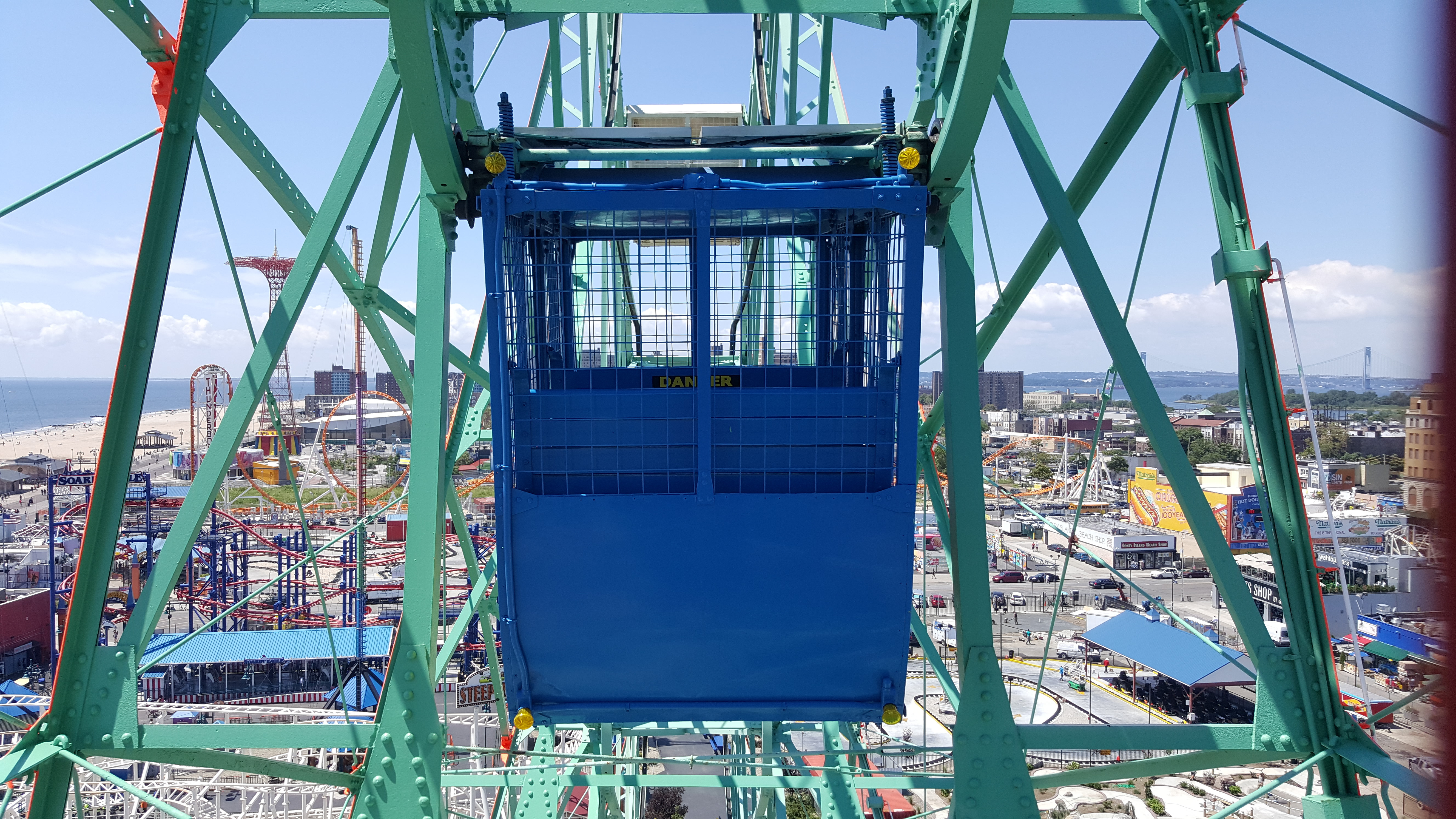 Coney Island, luna park